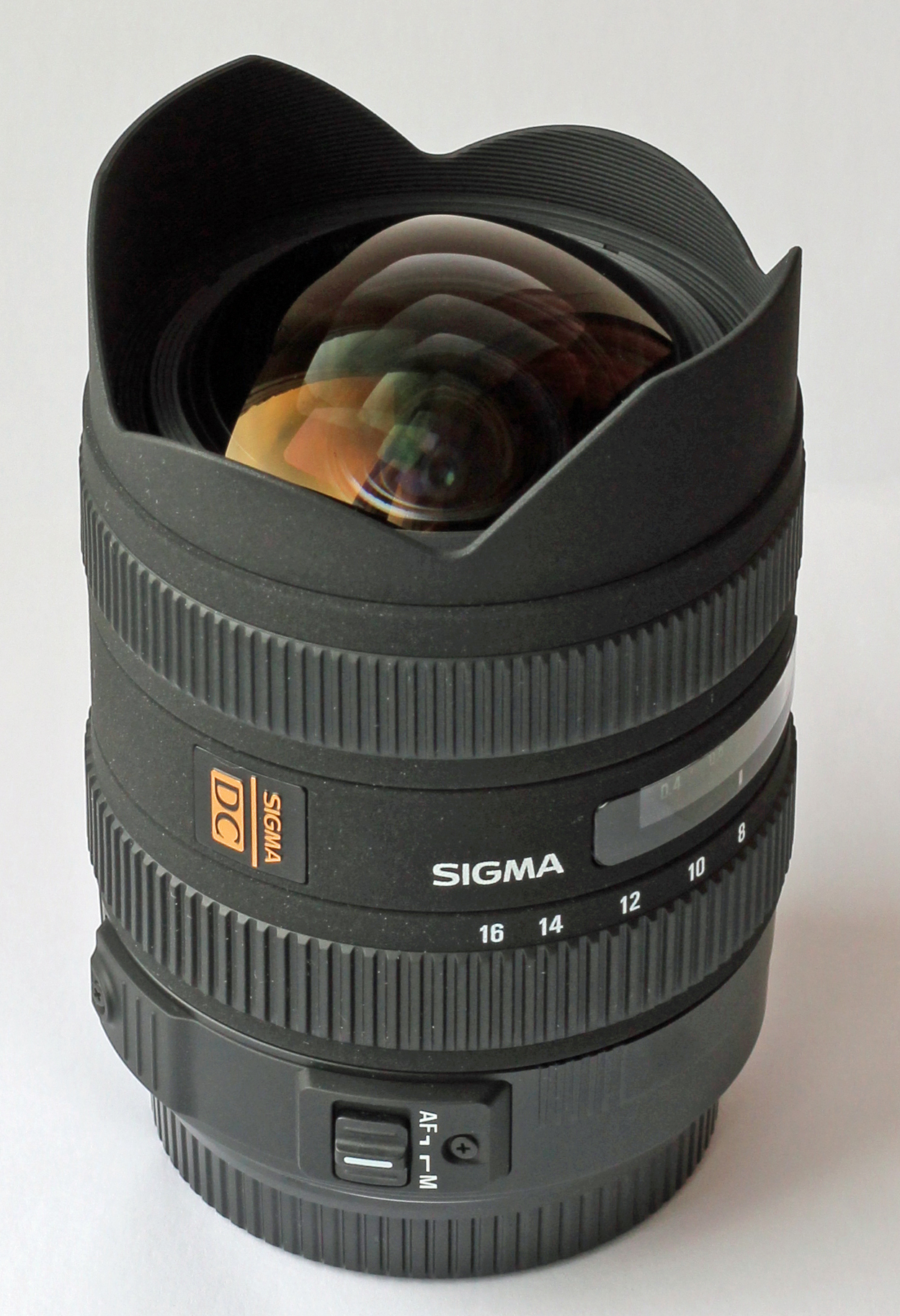 Sigma 8-16mm F4.5-5.6 DC HSM extreme wide-angle zoom lens